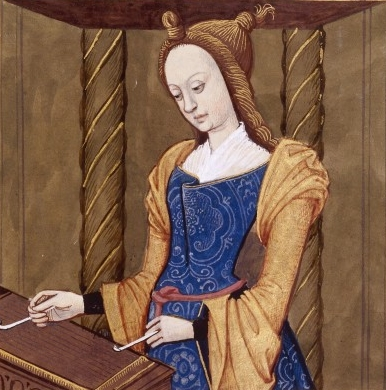 Cassandra, the daughter of King Priam and Queen Hecuba of Troy.